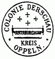 Old stamp of Derschau/Suchy Bór